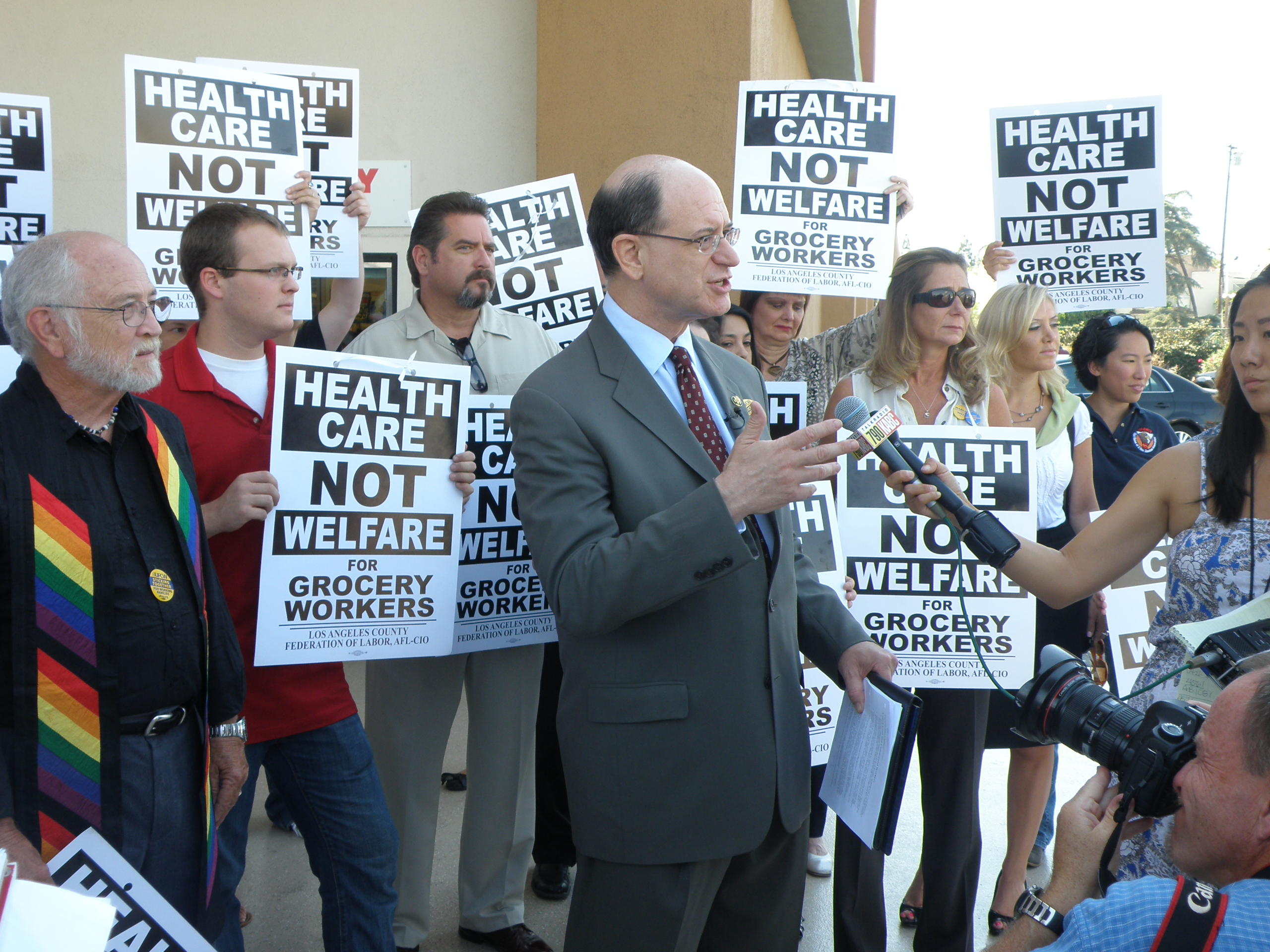 Congressman Brad Sherman discusses healthcare legislation at a worker’s rally outside Ralph's supermarket